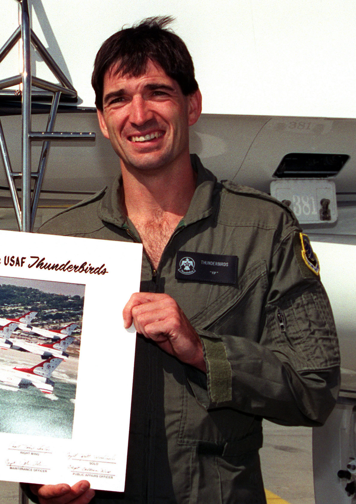 John Stockton, two time Olympic gold medalist and point-guard for the Utah Jazz, at the Fairchild Air Force Base. (excerpt from the original text)